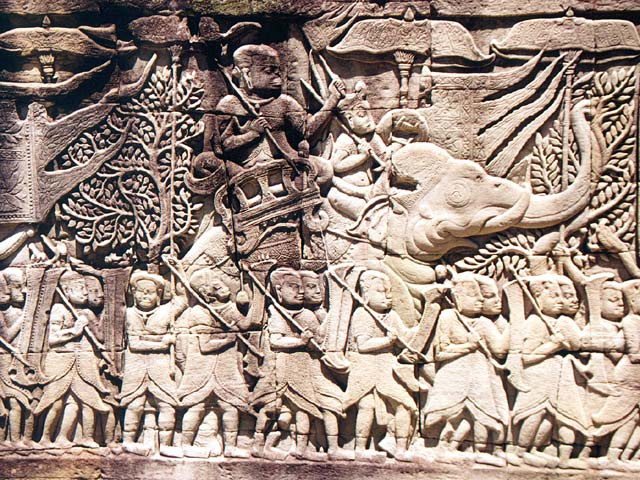 Khmer army going to war against the Cham; relief at the Bayon-temple in Angkor, Cambodia (S section, E gallery, late 12th to beginning 13th century)